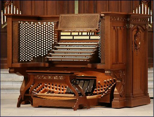 A head-on photo of the console of the organ at the United States Naval Academy chapel